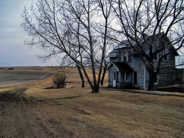 Abandoned Street and home, Rowley, Alberta.